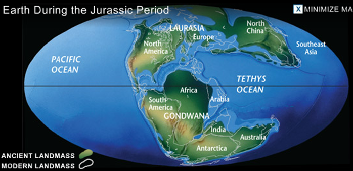 Correct